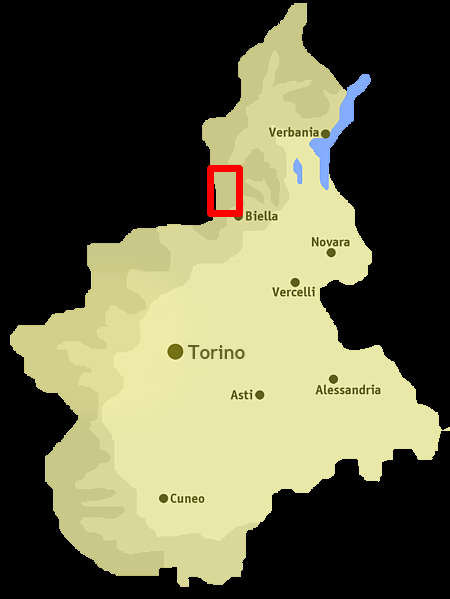 Val Cervo position within Piedmont (NW Italy)